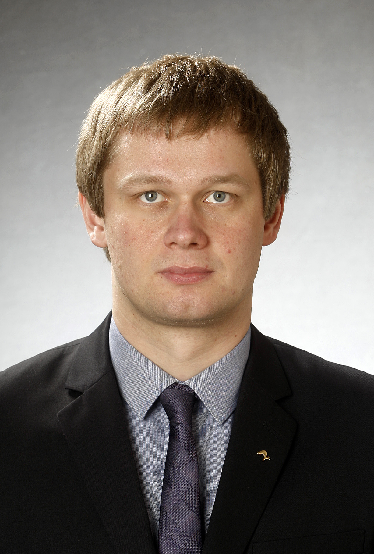 Remo Holsmer